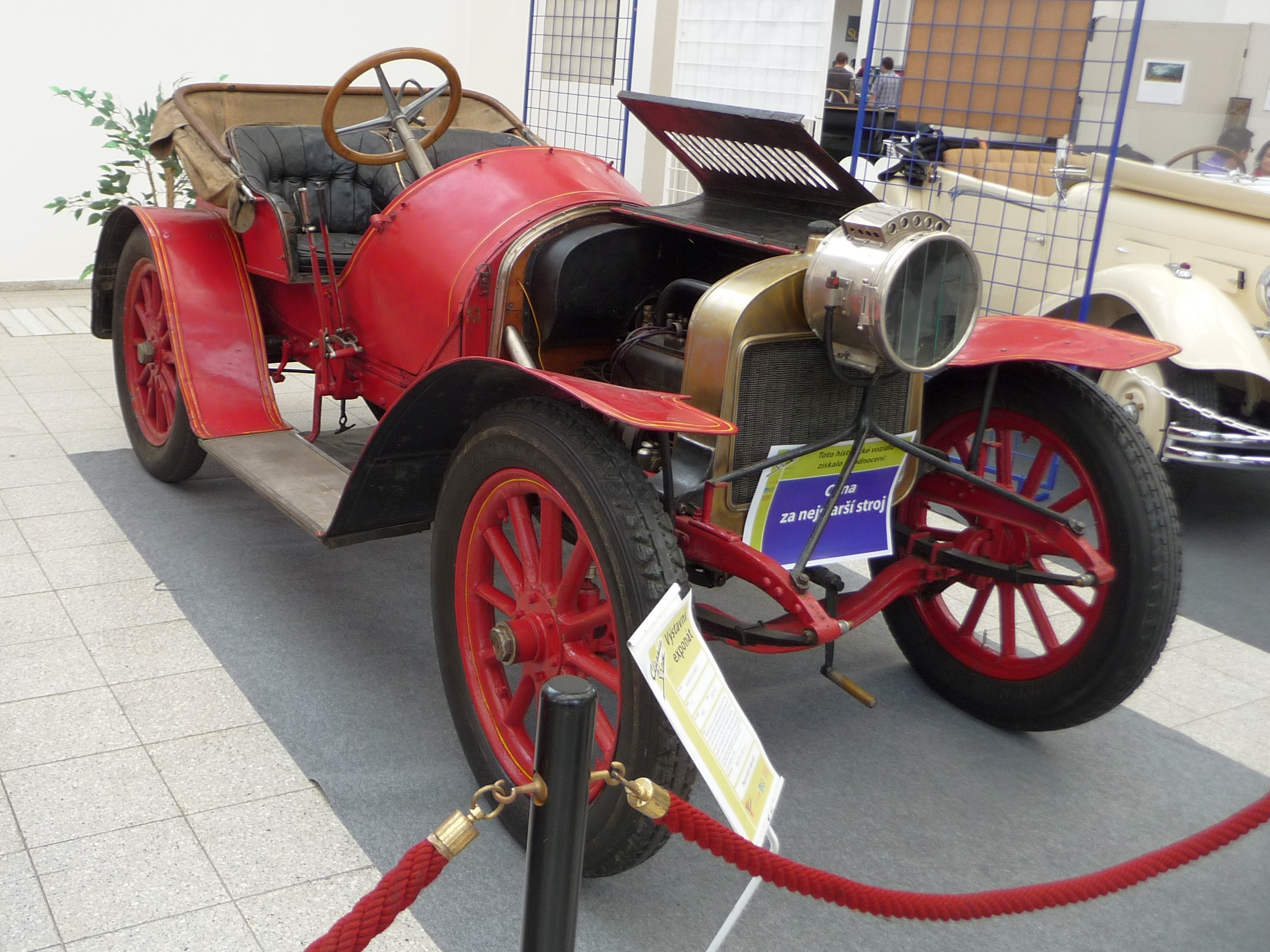 Laurin & Klement, model F, year 1907, 2427 ccm, Classic Show Brno 2011, The Brno Exhibition Grounds -10 -5 -3 -2 ◄ ► +2 +3 +5 +10